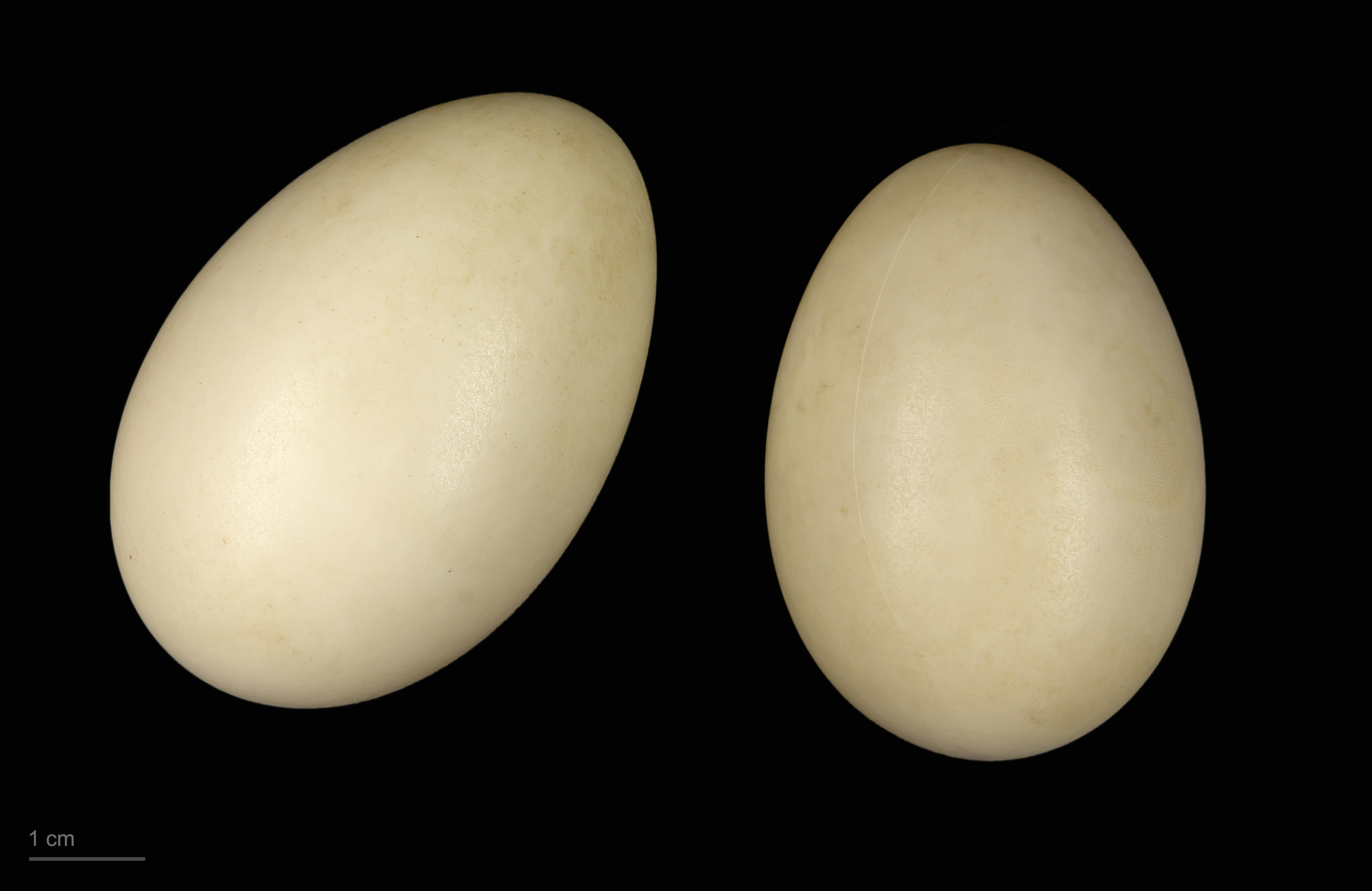 Egg of falcated duck Collection of Jacques Perrin de Brichambaut.